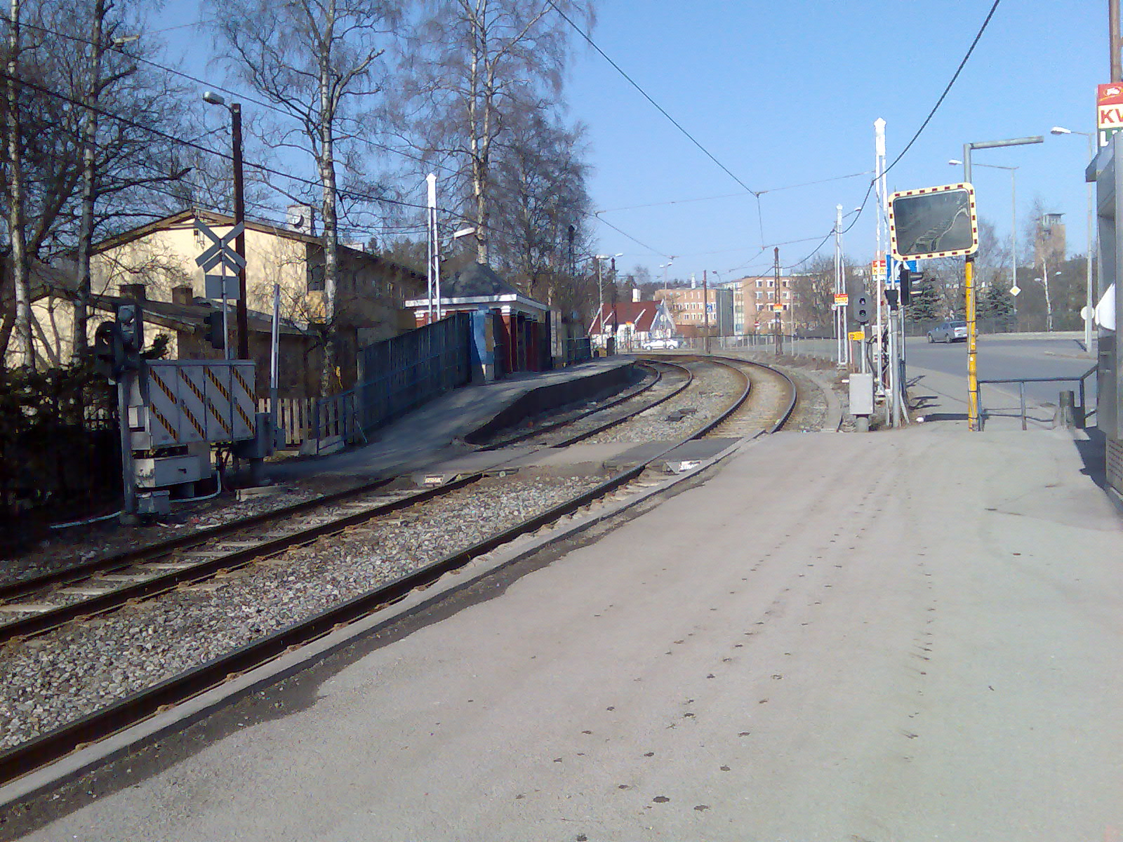 Gaustad, a light rail station at the Holmenkollen line of the Oslo subway system.